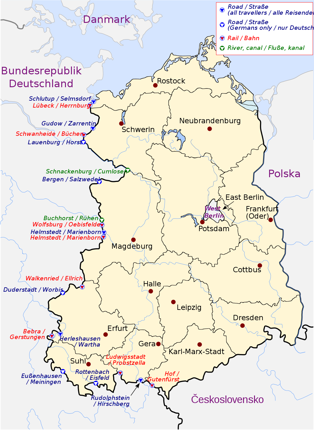 East German border crossing points as of 1982. Locations sourced from the appendix to §18 of the regulation implementing the Law on the State Border of the German Democratic Republic of 25 March 1982, plotted on an existing Wikimedia Commons map.